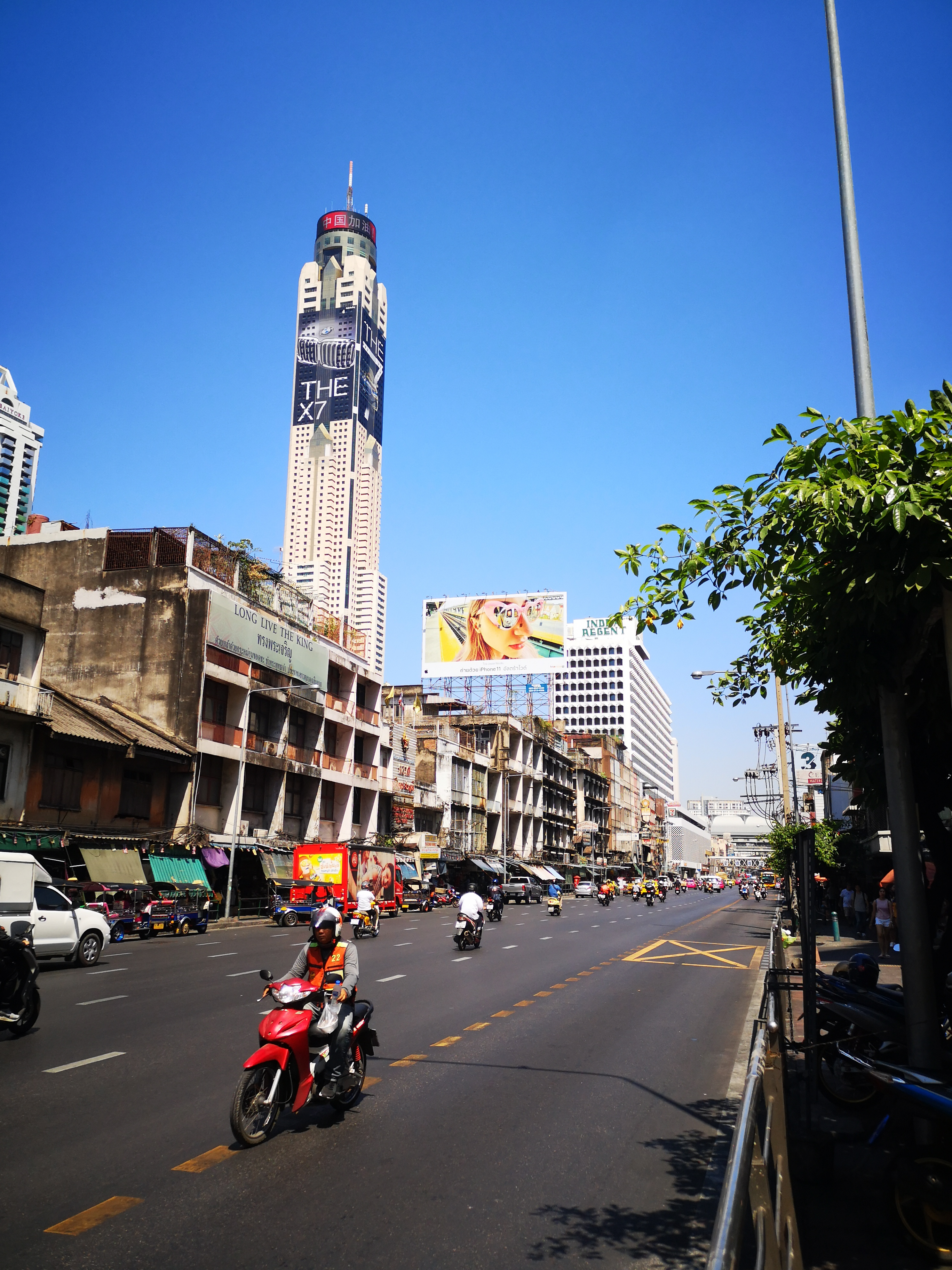 Thanon Ratchaprarop